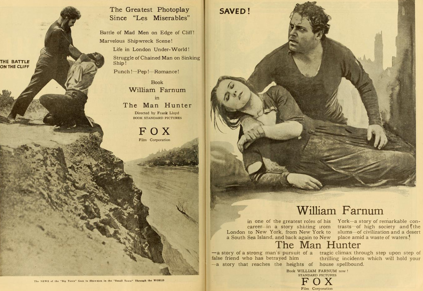 Advertisement in Moving Picture World for the American film The Man Hunter (1919) with William Farnum and Louise Lovely.